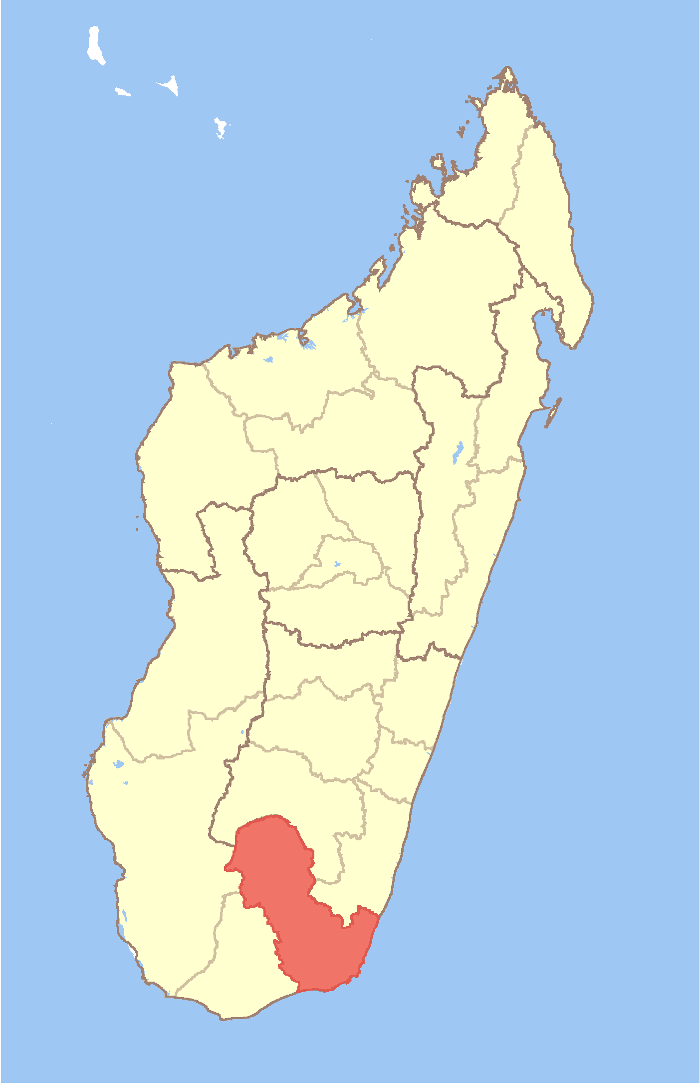 Map of Madagascar with Anosy Region highlighted